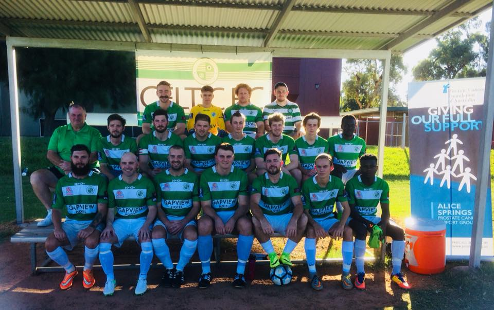 2018 Squad Picture